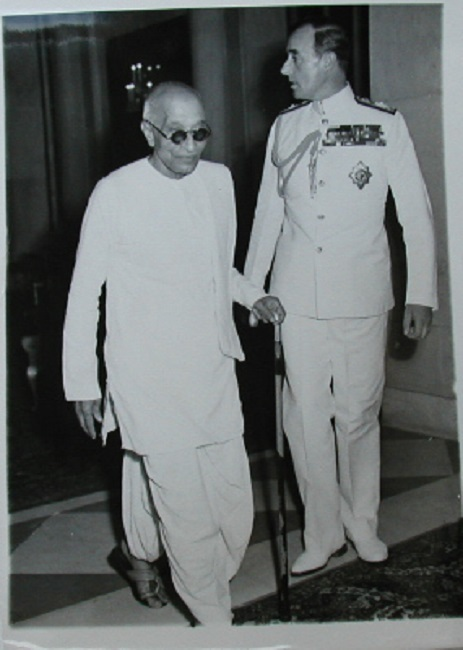 Governor-General of India C. Rjagopalachari with Lord Mountbatten - 1948